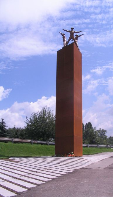 Monument at the place of Heydrich assassination